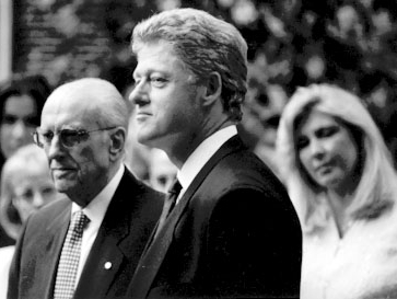 Prime Minister of Greece, Andreas Papandreou on official visit with United States President William J. Clinton, Washington, April 1994. Courtesy White House Photo Office